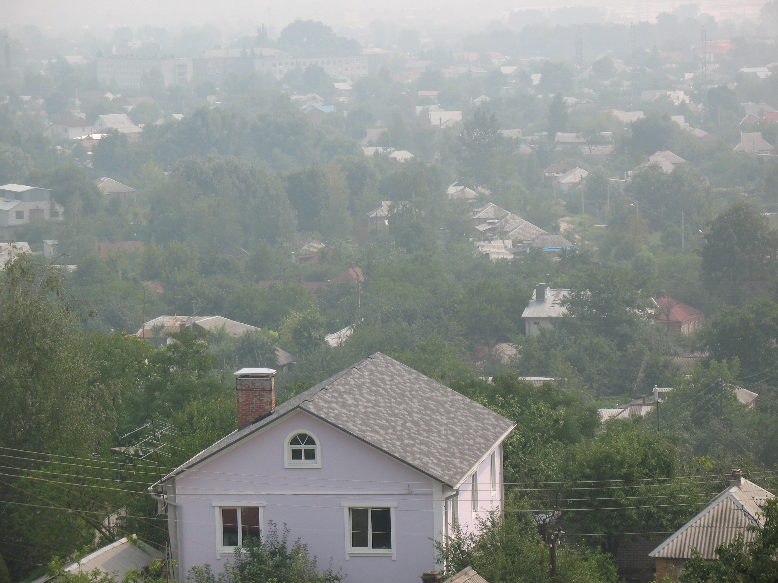 Smog in Kharkov City. August 14, 2010 11:46